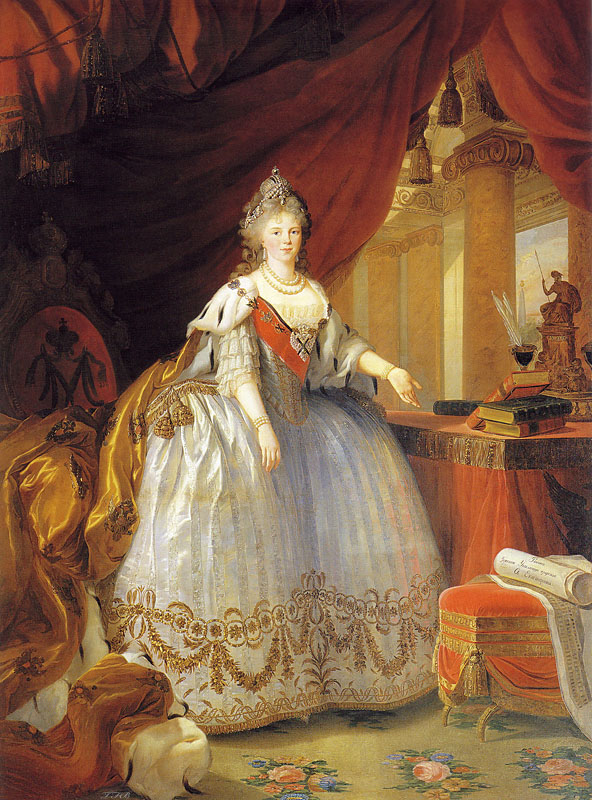 Ceremonial portrait of Maria Feodorovna (Sophie Dorothea of Württemberg)